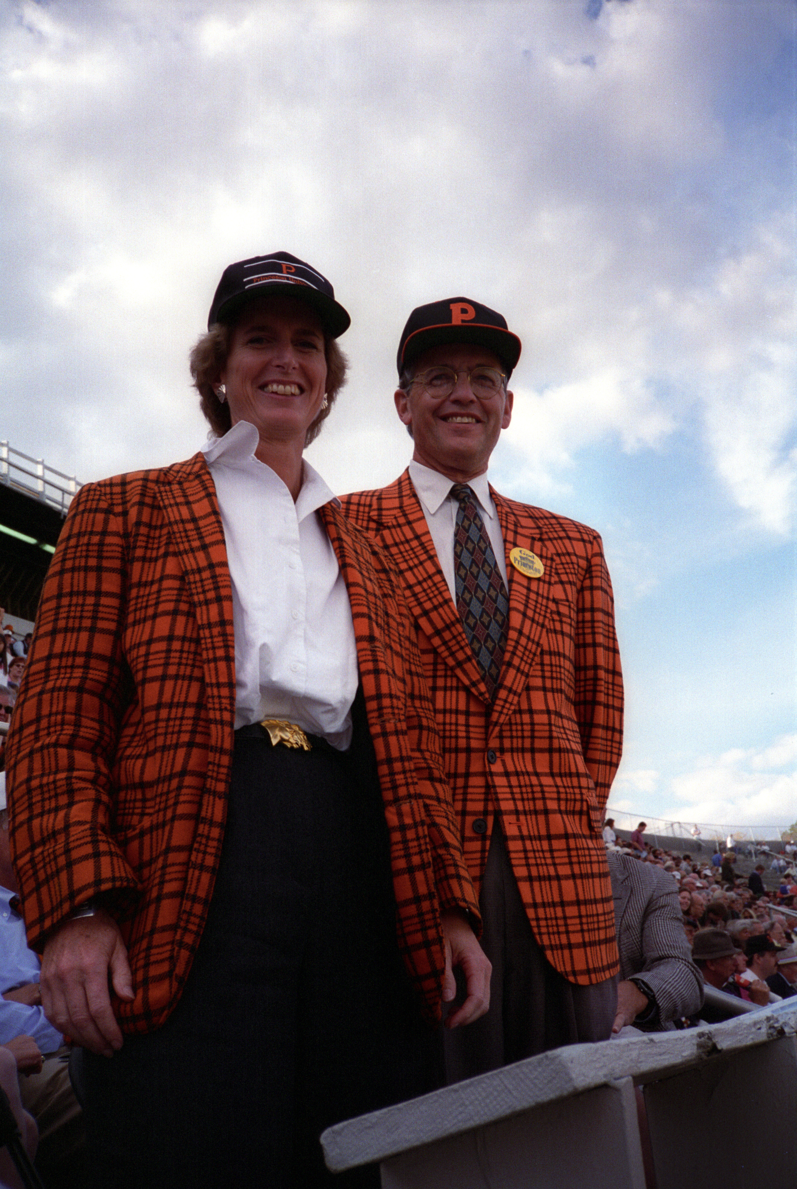 New Jersey governor Christine Todd Whitman and Princeton University president Harold Shapiro are proud to support the Princeton University Band! President Shapiro wore the jacket all through the game and marched with us at halftime. And Governor Whitman was very gracious when I asked her to don a jacket and pose for a photo.